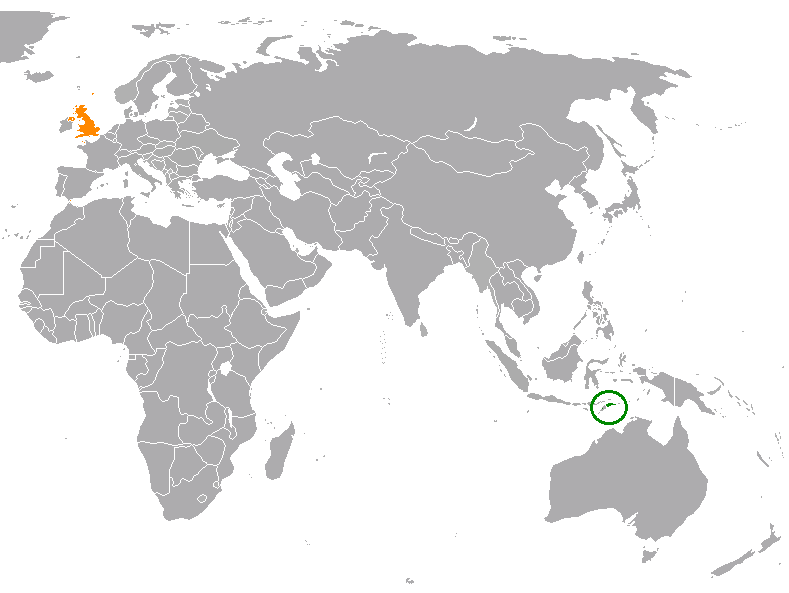 Map showing locations of both East Timor and the United Kingdom